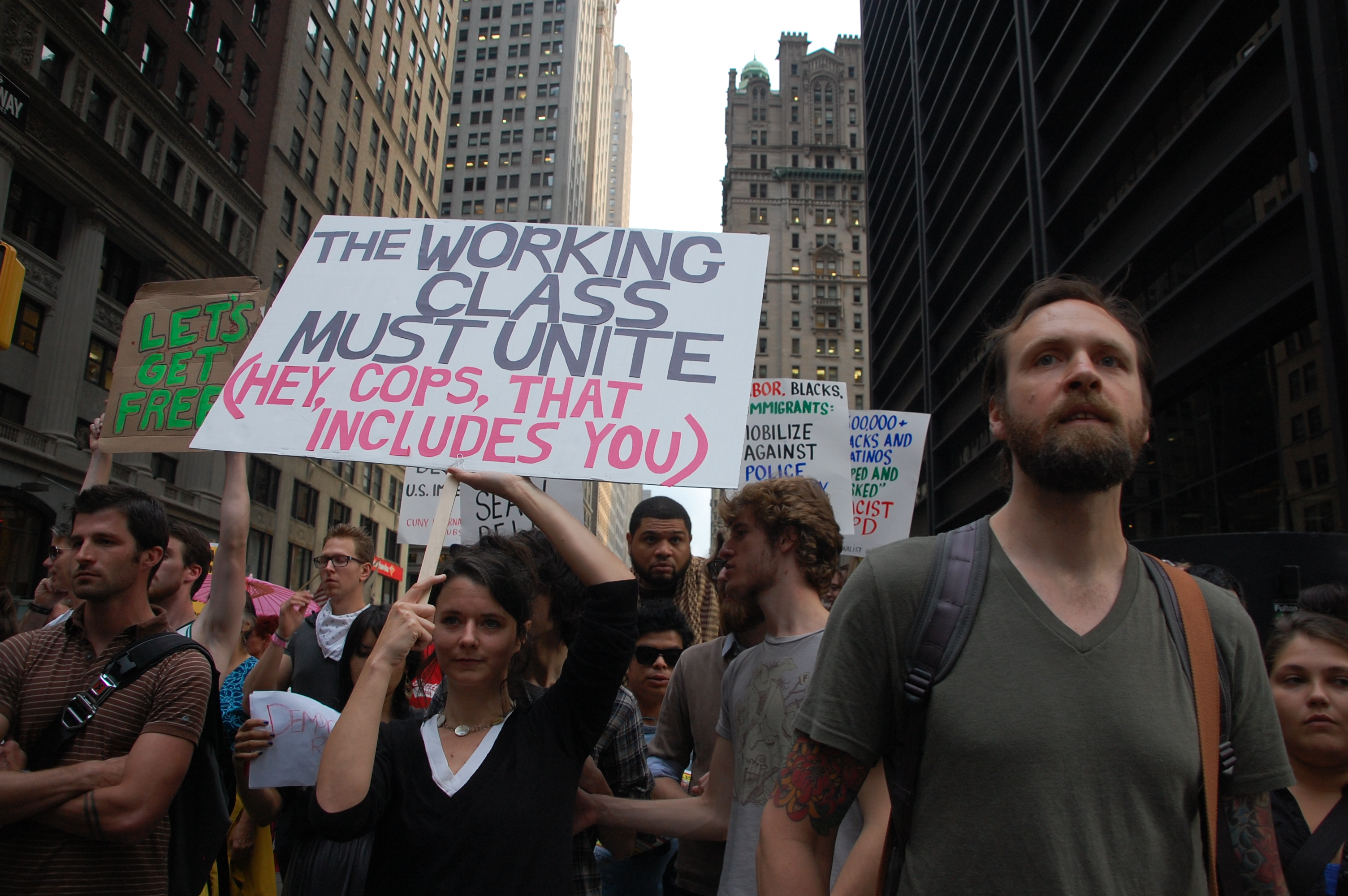 NEW YORK -- "Occupy Wall Street" protesters march up Broadway from Zuccotti Park to 1 Police Plaza. The march was in response to NYPD Deputy Inspector Anthony V. Bologna pepper-spraying two female protesters, already in police custody. The pepper-spraying incident occurred on September 24, 2011. The march -- on September 30, 2011.